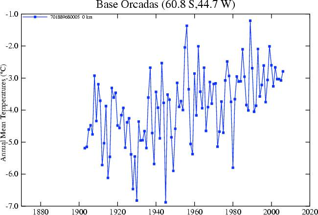 Graph of 1901-2007 air average temperature of Orcadas del Sur Base, Argentina